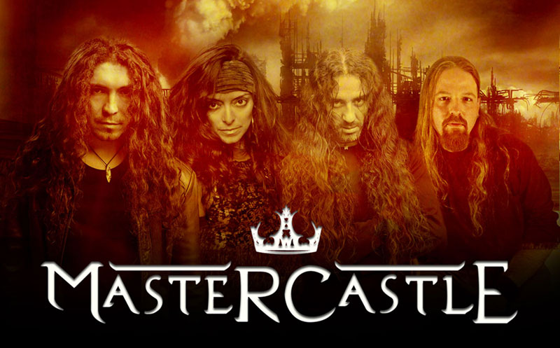 Mastercastle band